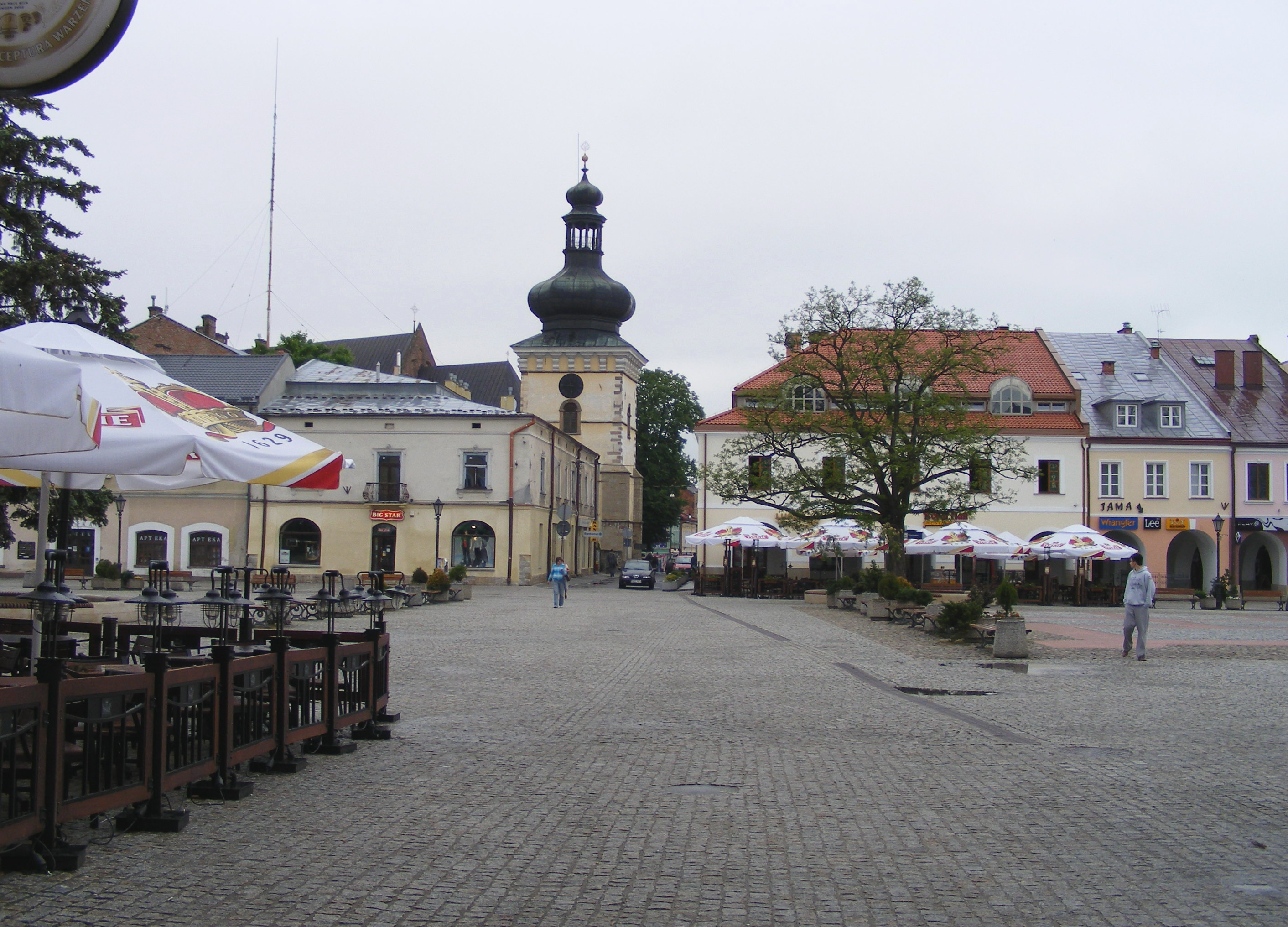 Square in Krosno